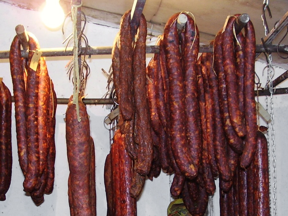 Csabai kolbász (Csaba kind sausages in Békéscsaba, Hungary)